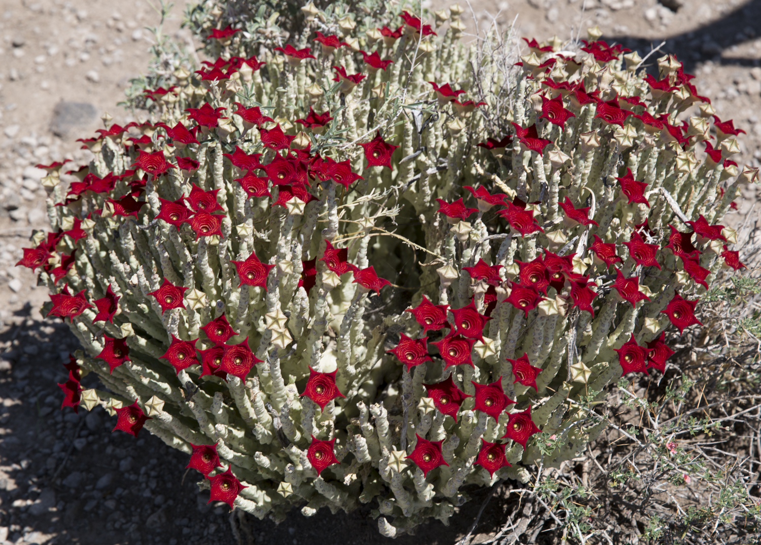 Caralluma socotrana, Magadi, Kenya